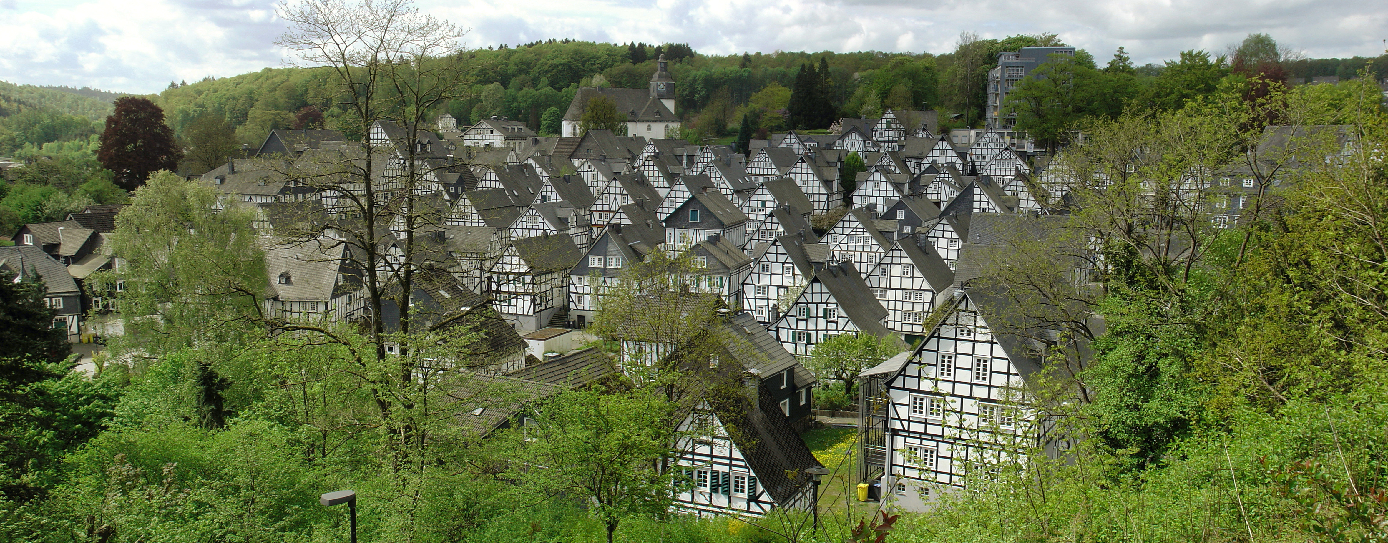 The historic town center "Alter Flecken" of Freudenberg This is a photograph of an architectural monument., no. 1, 24 - 66